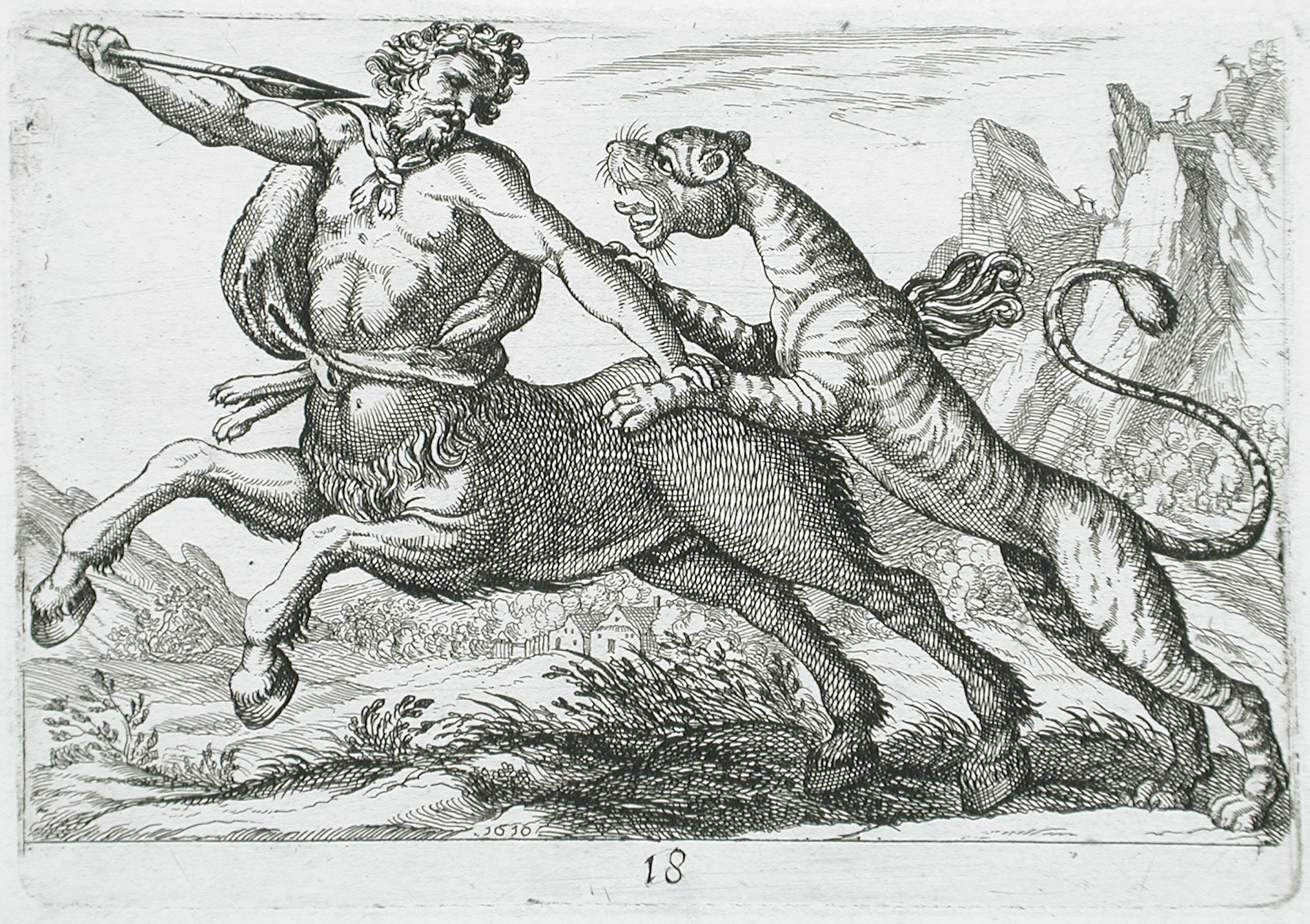 Holland, 1610 Series: Battling Animals, pl. 18 Prints; etchings Etching Los Angeles County Fund (65.37.313) Prints and Drawings